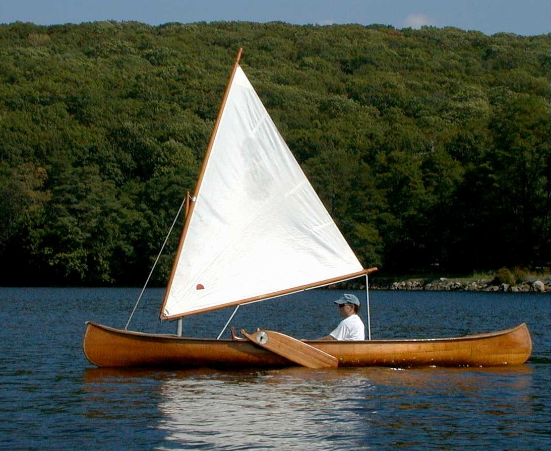 Sailing Canoe on Lake Sebago in Harriman State Park. Taken by User:Mwanner, August 1999.